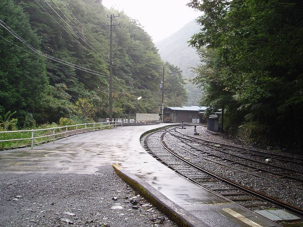 Inside of Ikawa Sta.